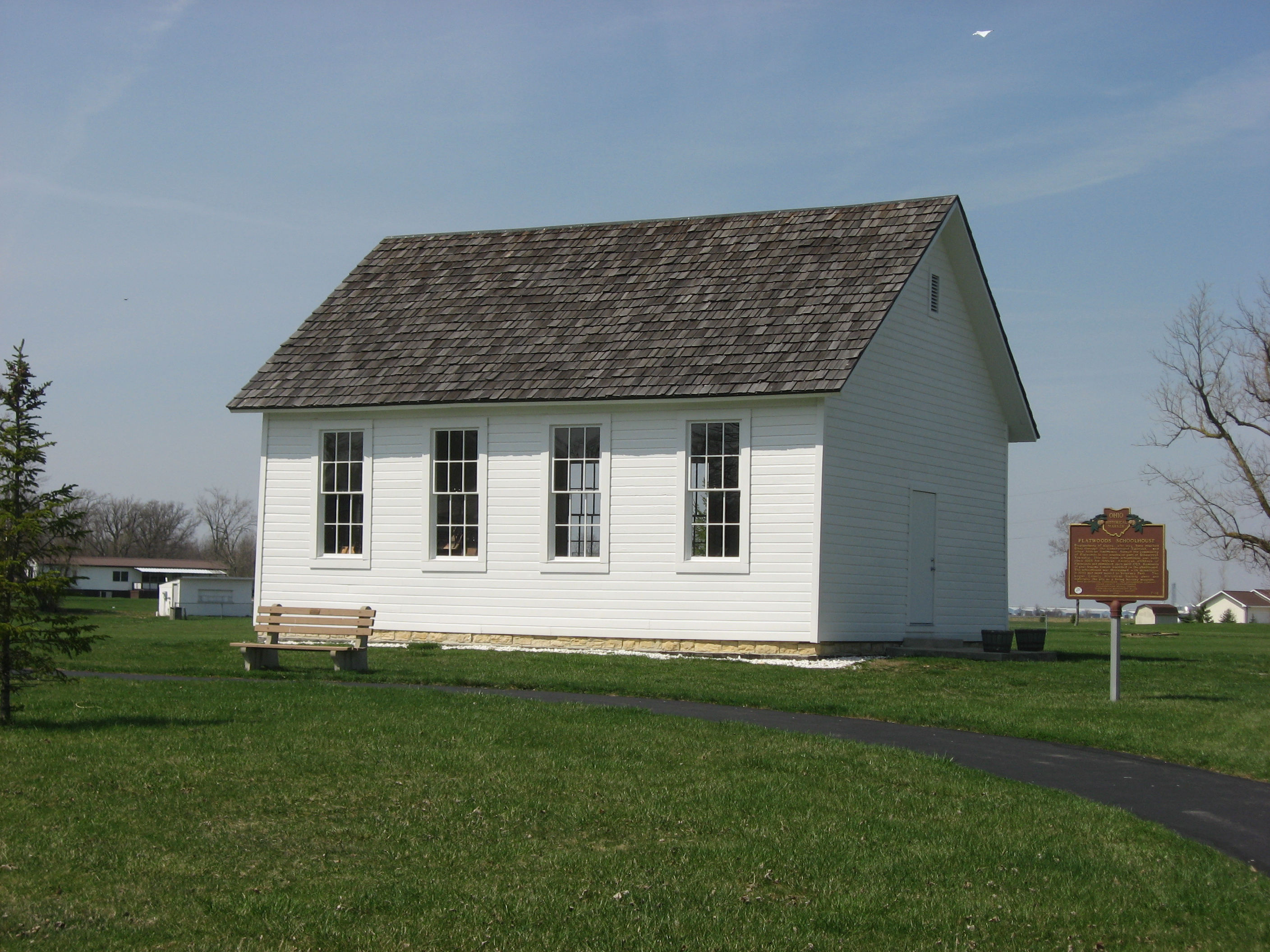 Southern side of the Flatwoods Schoolhouse, located in the community park on the northern side of West Mansfield, Ohio, United States. Built in 1868 for local African-American children, it was relocated to its current site in the early 2000s; today, it is a living history museum.